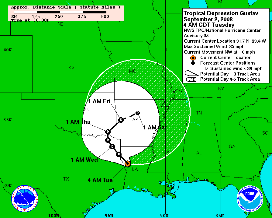 Five day forecast track of Hurricane Gustav